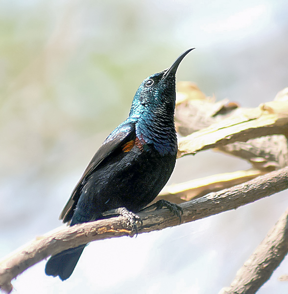 Purple Sunbird Nectarinia asiatica in Bhopal, Madhya Pradesh, India.